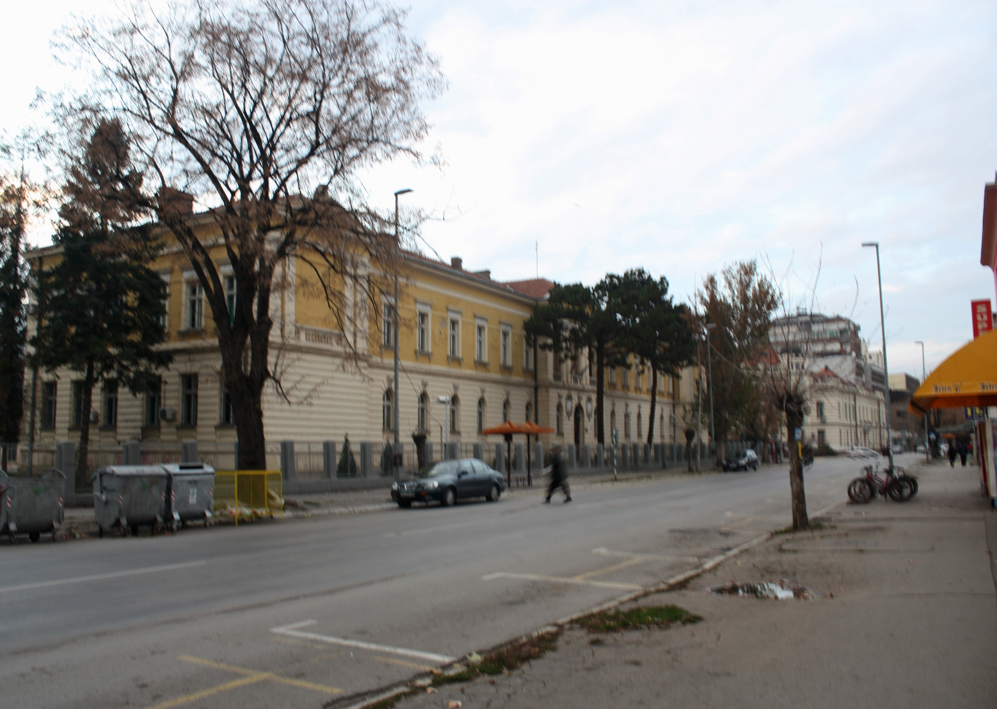 Pirot high school